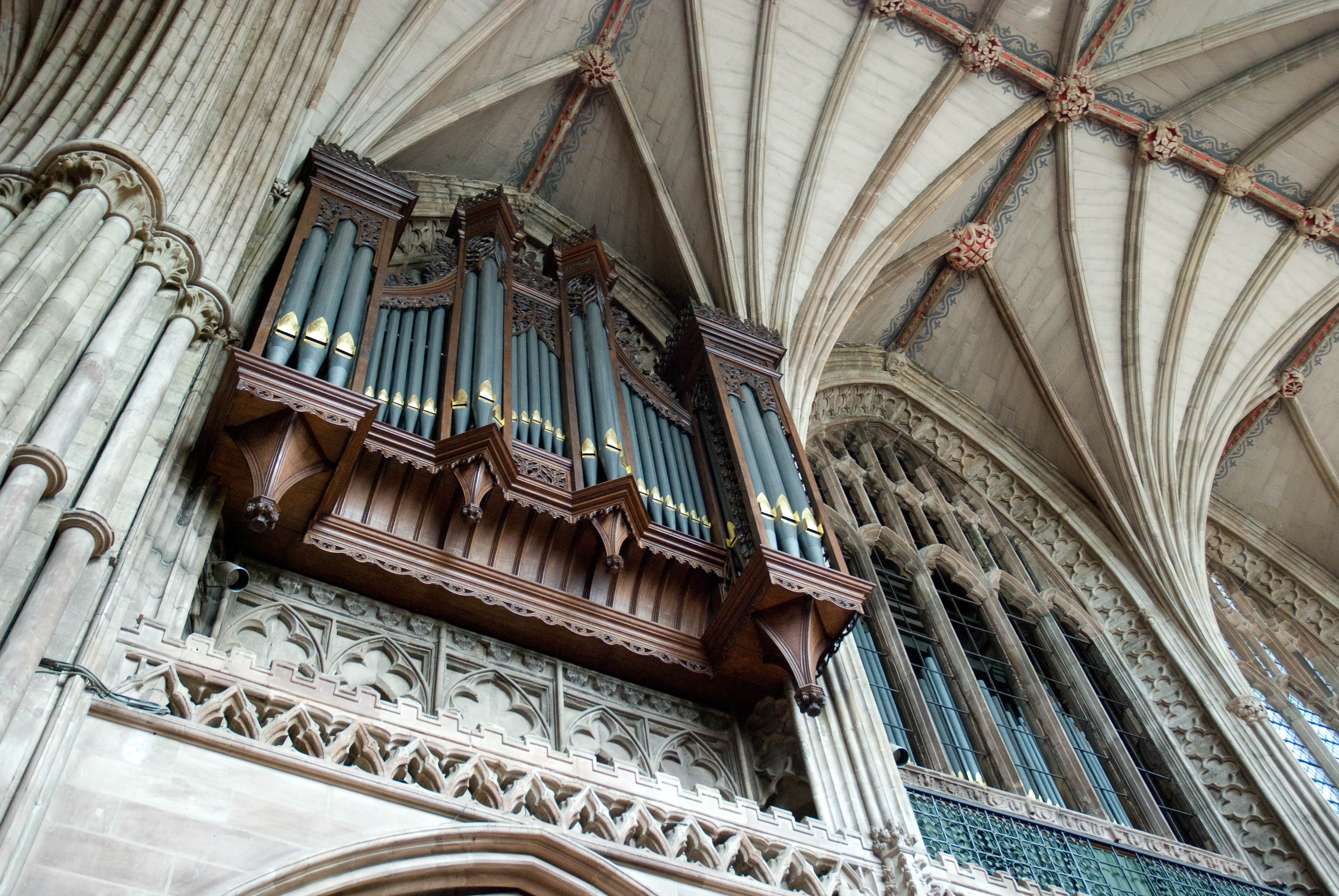 A modest organ at the Lichfield Cathedral